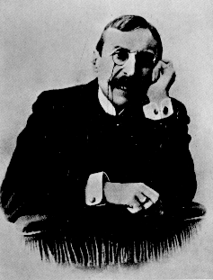 Portrait of Eça de Queirós (1845-1900), Portuguese writer.